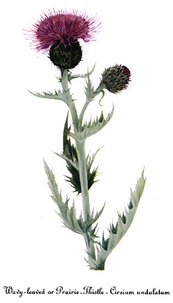 Watercolor painting of Cirsium_undulatum.